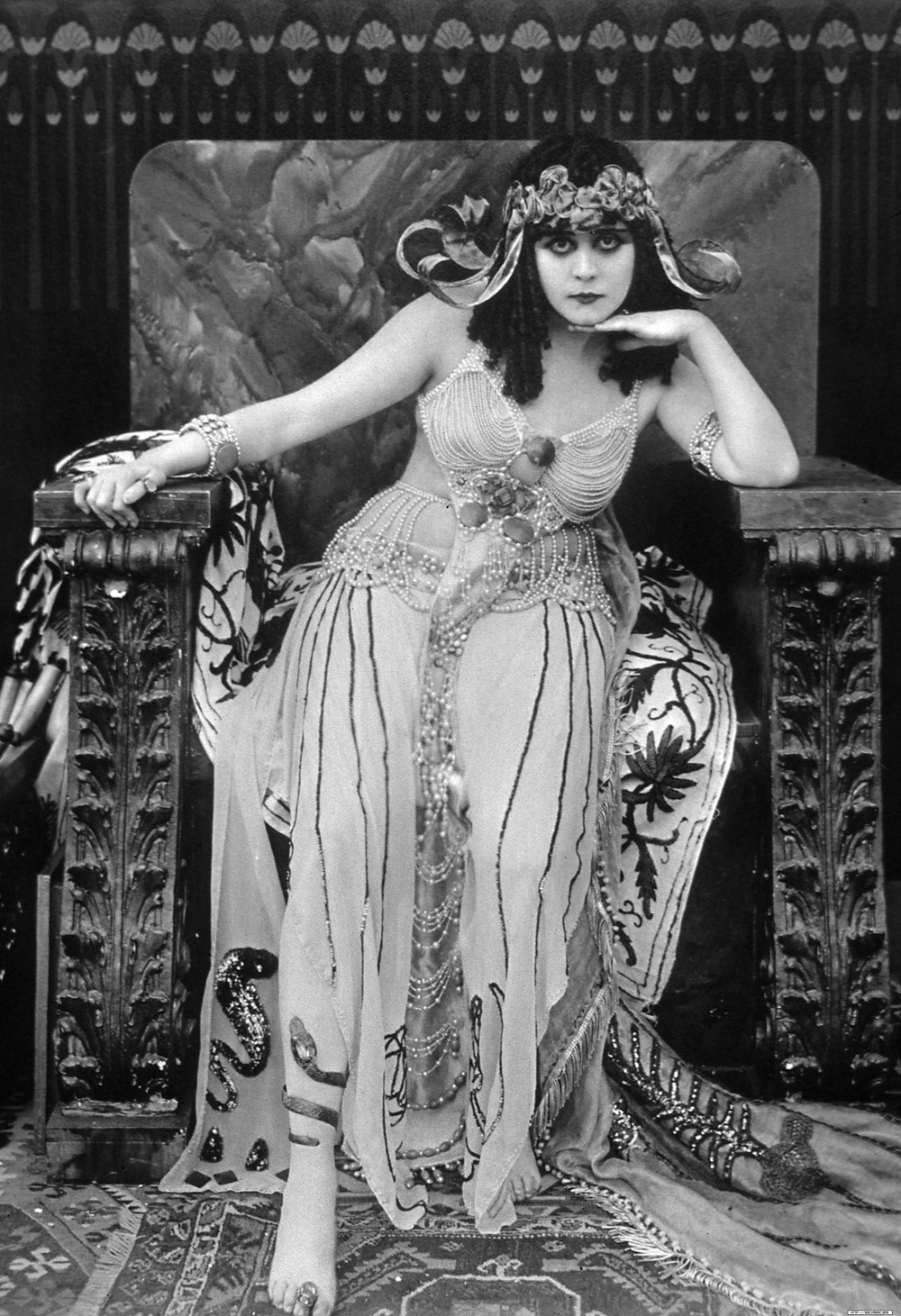 Theda Bara in the American film Cleopatra (1917)